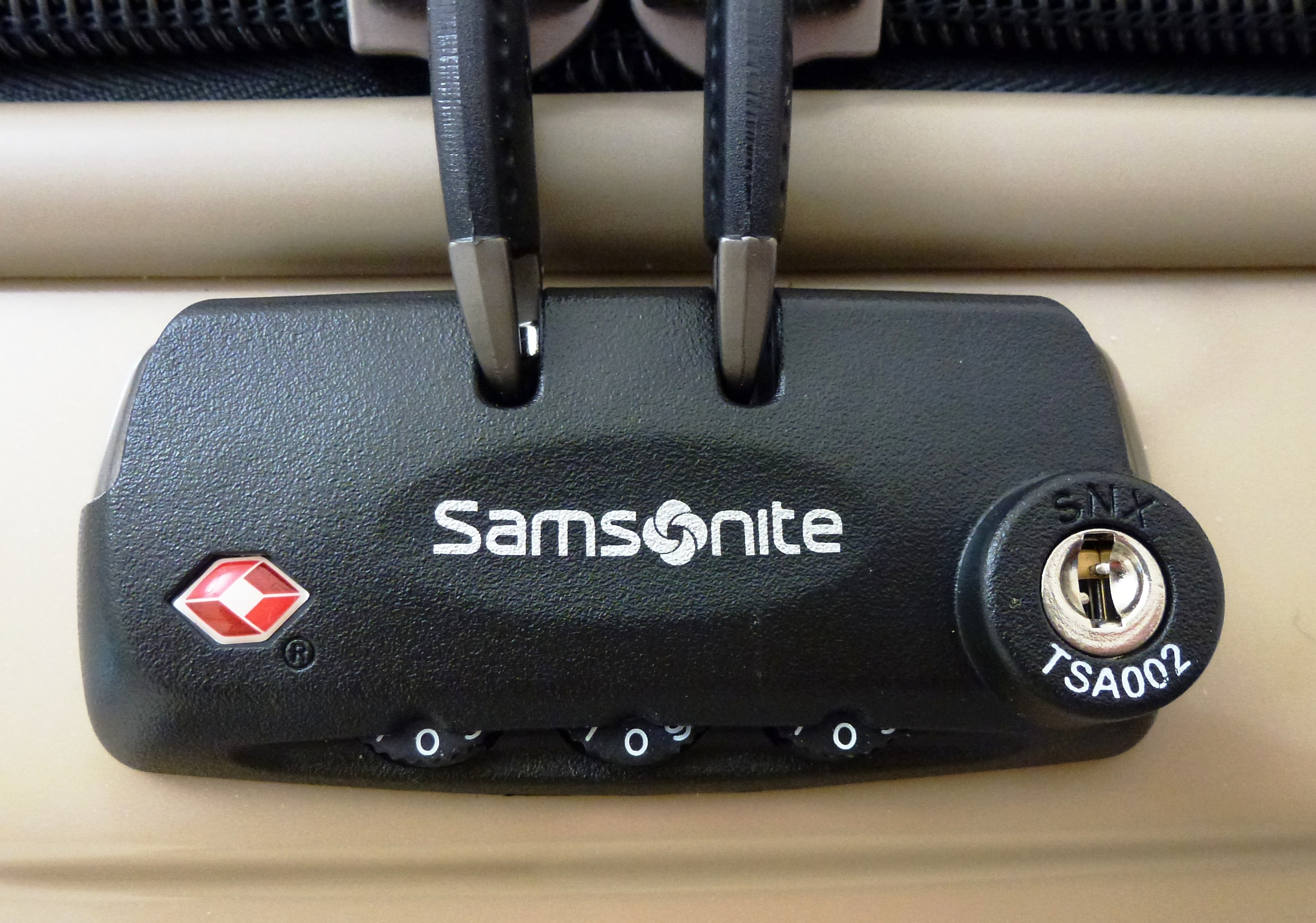 TSA (Transportation Security Administration) Lock with Symbol and General Key Access